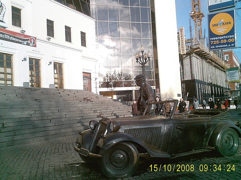 Nikulin Circus Entrance Moscow Russia